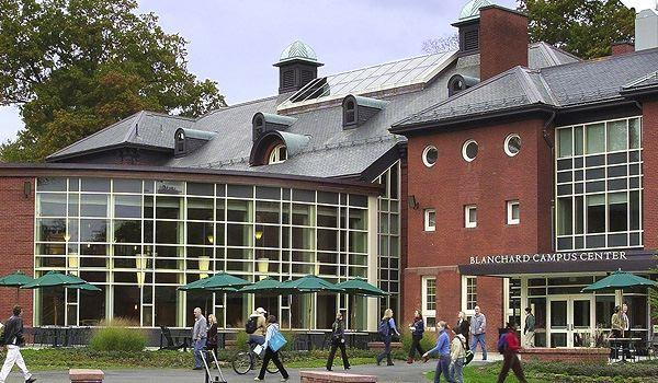 Mt. Holyoke exterior